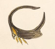 Cutted out of image Bcags2.jpg